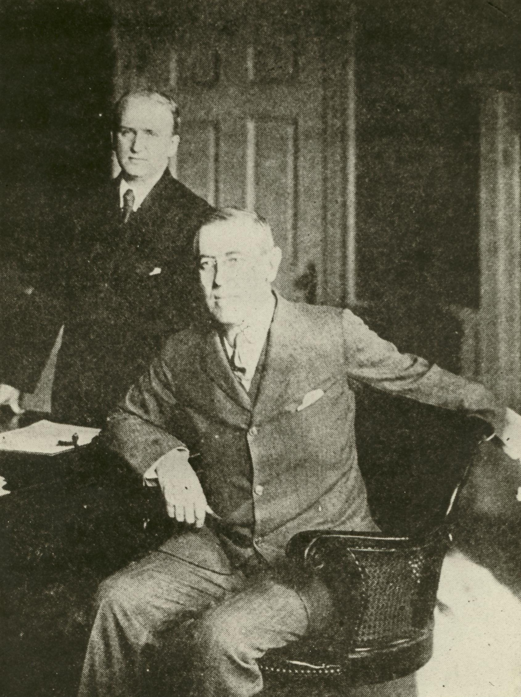 Local Accession Number: 2157 Description: Wilson and his secretary, Joseph Patrick Tumulty, during his 2nd term. Photographer: G.V. Buck Source: Research Library, 20th Century Fox Size: 8x10 Medium: Print, Black and White Date: c.1917